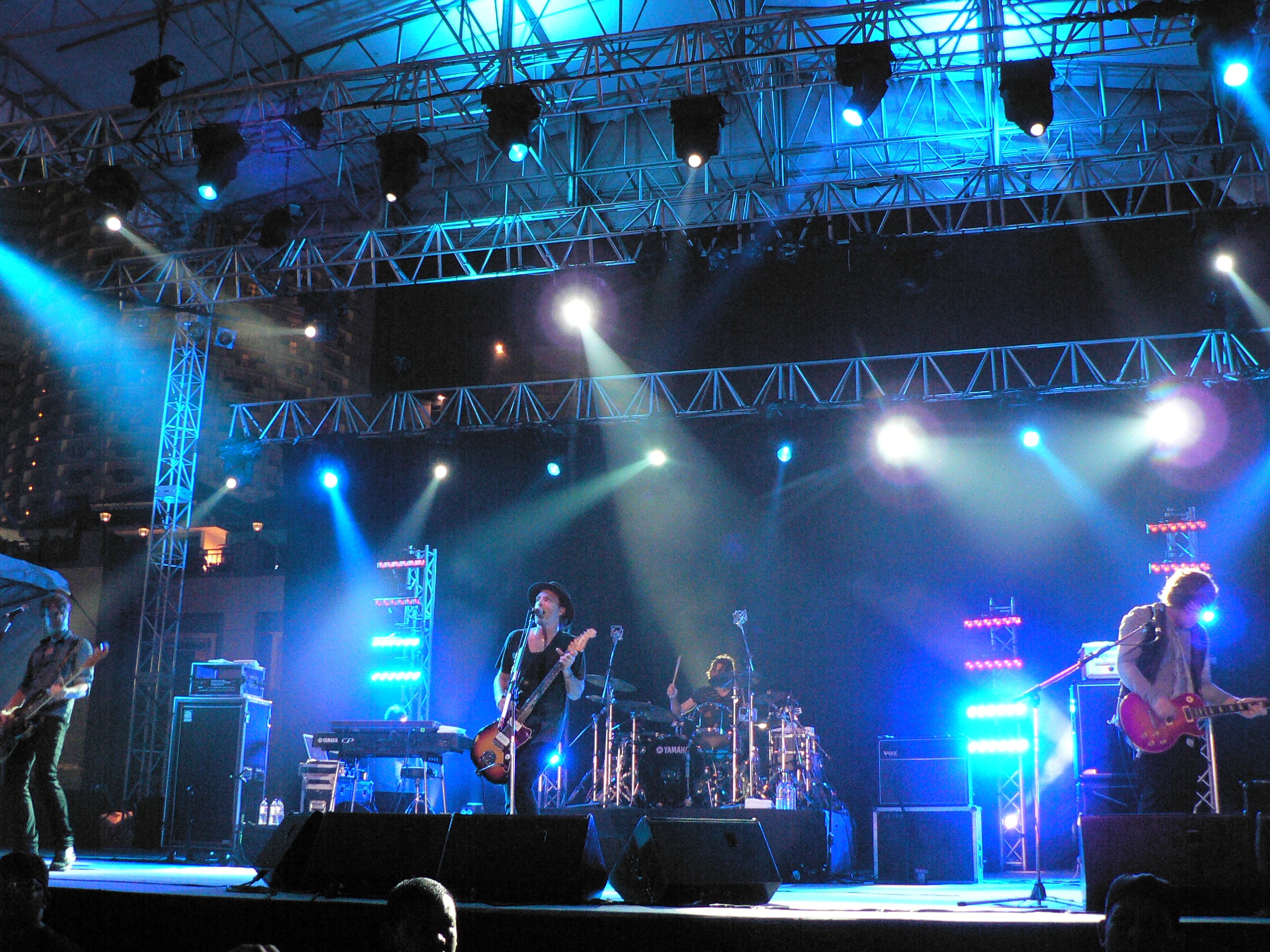 Singapore Grand Prix 2009, Padang Concert Stage